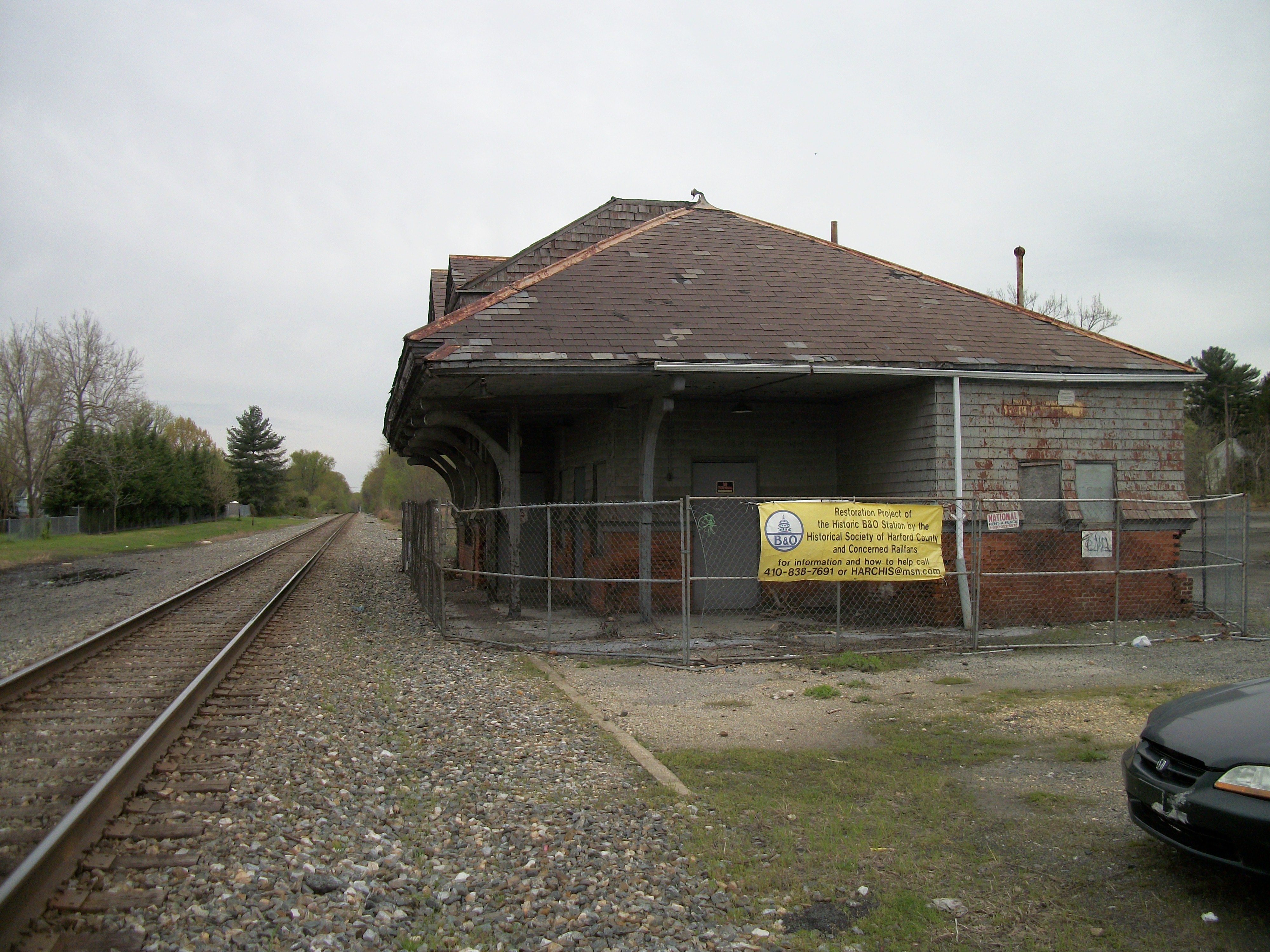 The former Aberdeen, Maryland Baltimore and Ohio Railroad station, which is along the CSX Philadelphia Subdivision, a line currently used only for freight. Amtrak uses a former Pennsylvania Railroad line. The Historical Society of Harford County and some railfans are trying to have the station house saved.